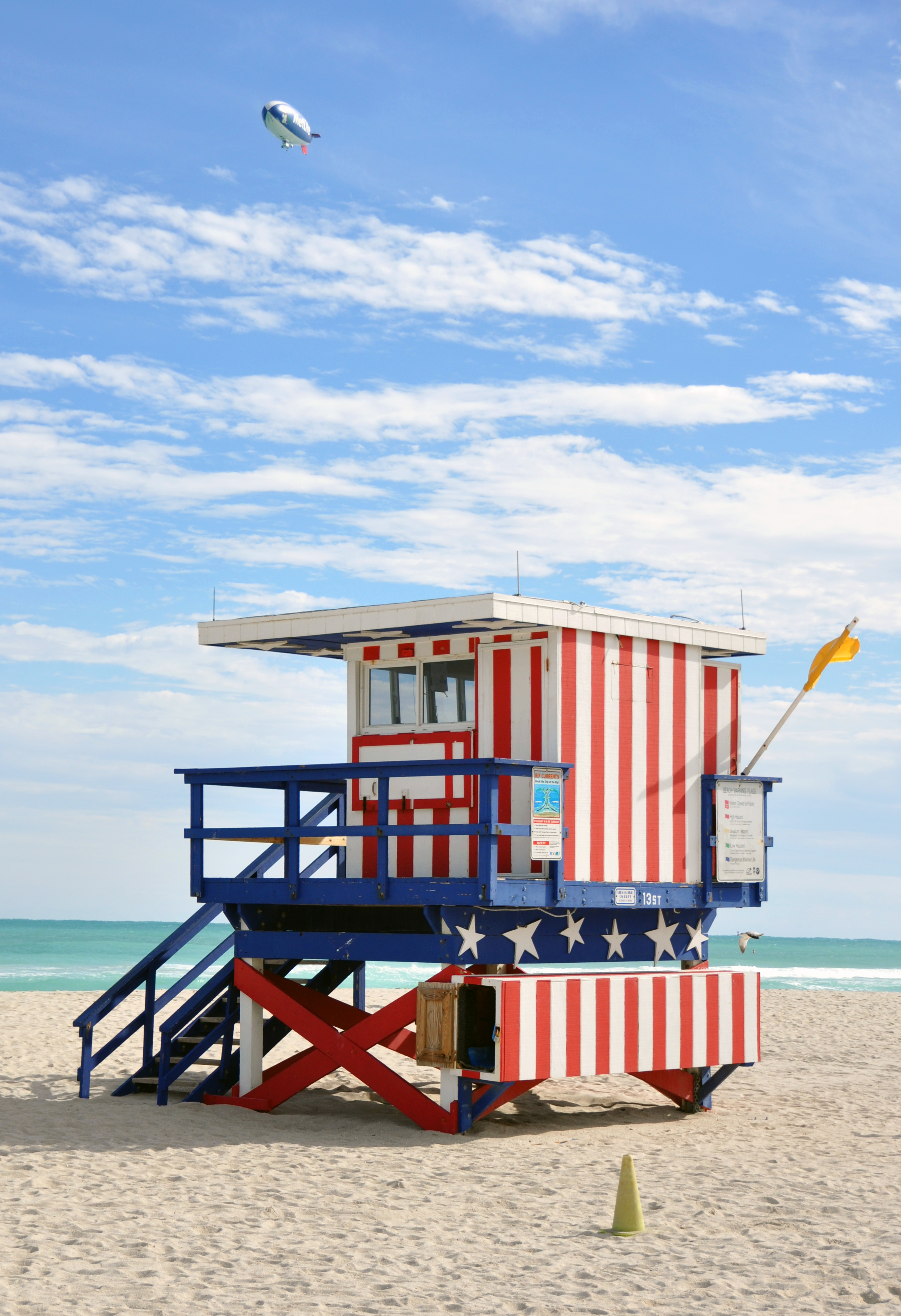 South Beach Miami lifeguard post 2009